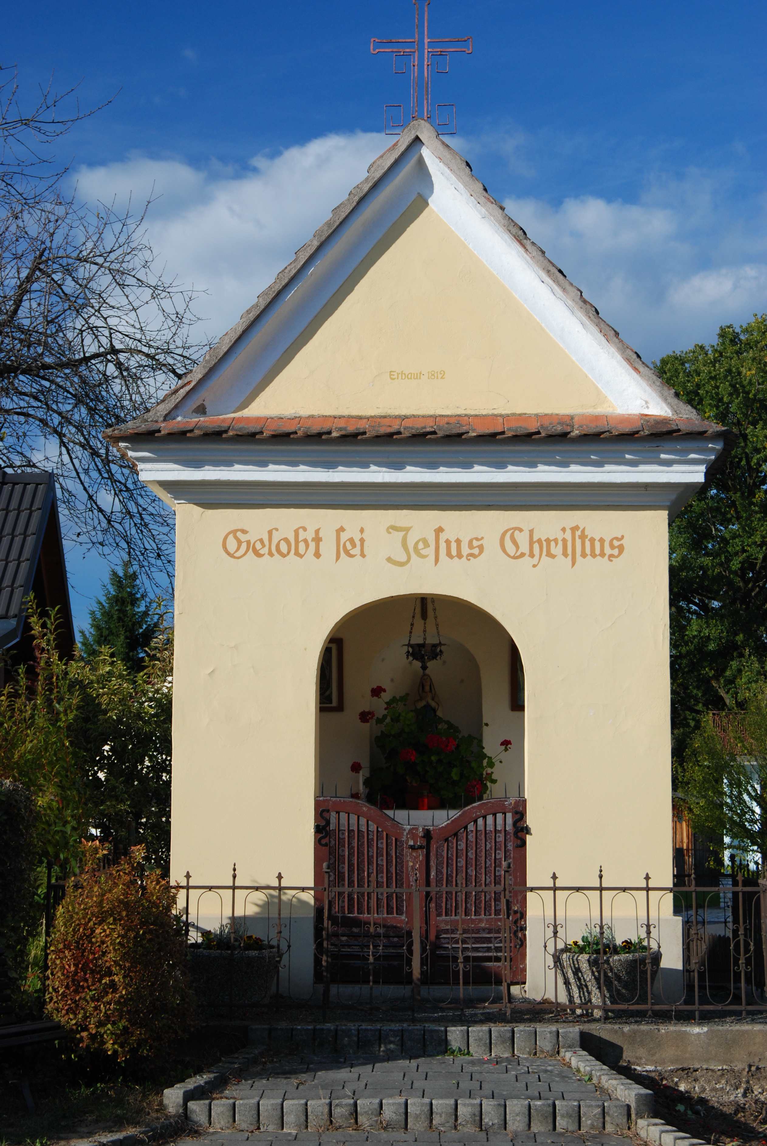 Wegkapelle Neumarkt an der Raab